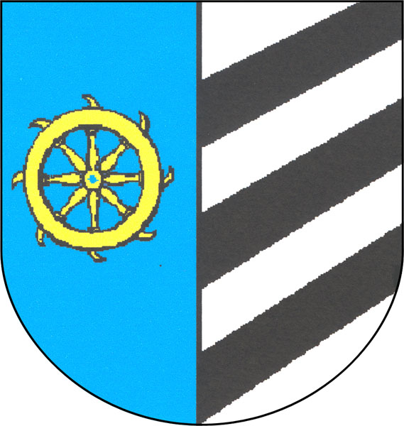 Coat of amrs of Jesenice , District Příbram, Czech Republic